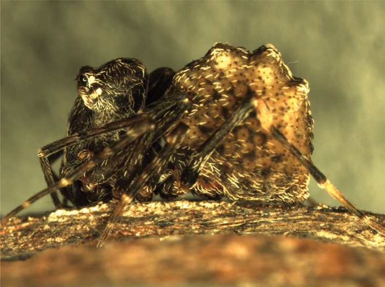 Female Zephyrarchaea mainae from Bremer Bay, Western Australia.